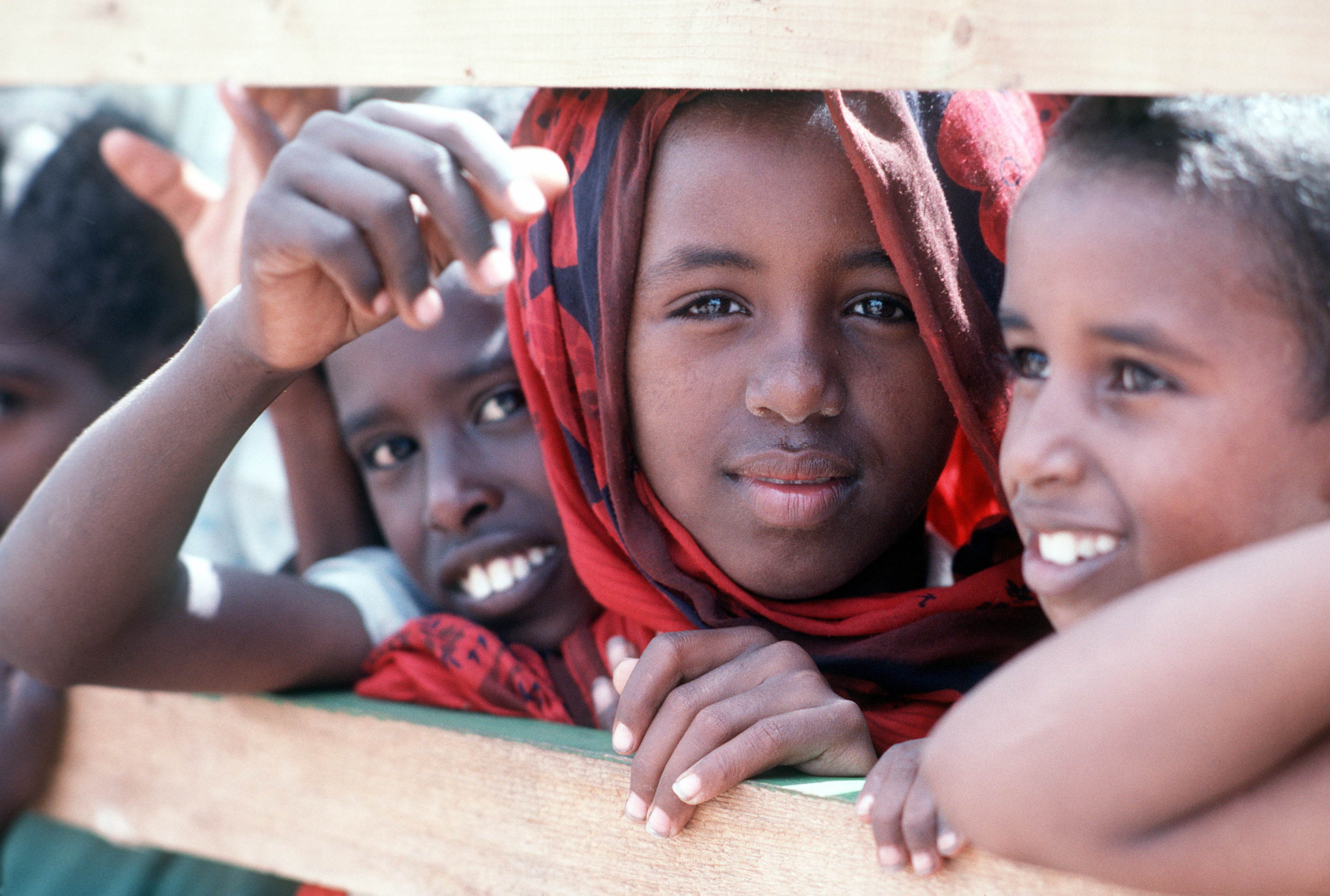 Somali children watch members of Naval Mobile Construction Battalion 1 (NMCB-1) as they work to improve a local school during the multinational relief effort OPERATION RESTORE HOPE.